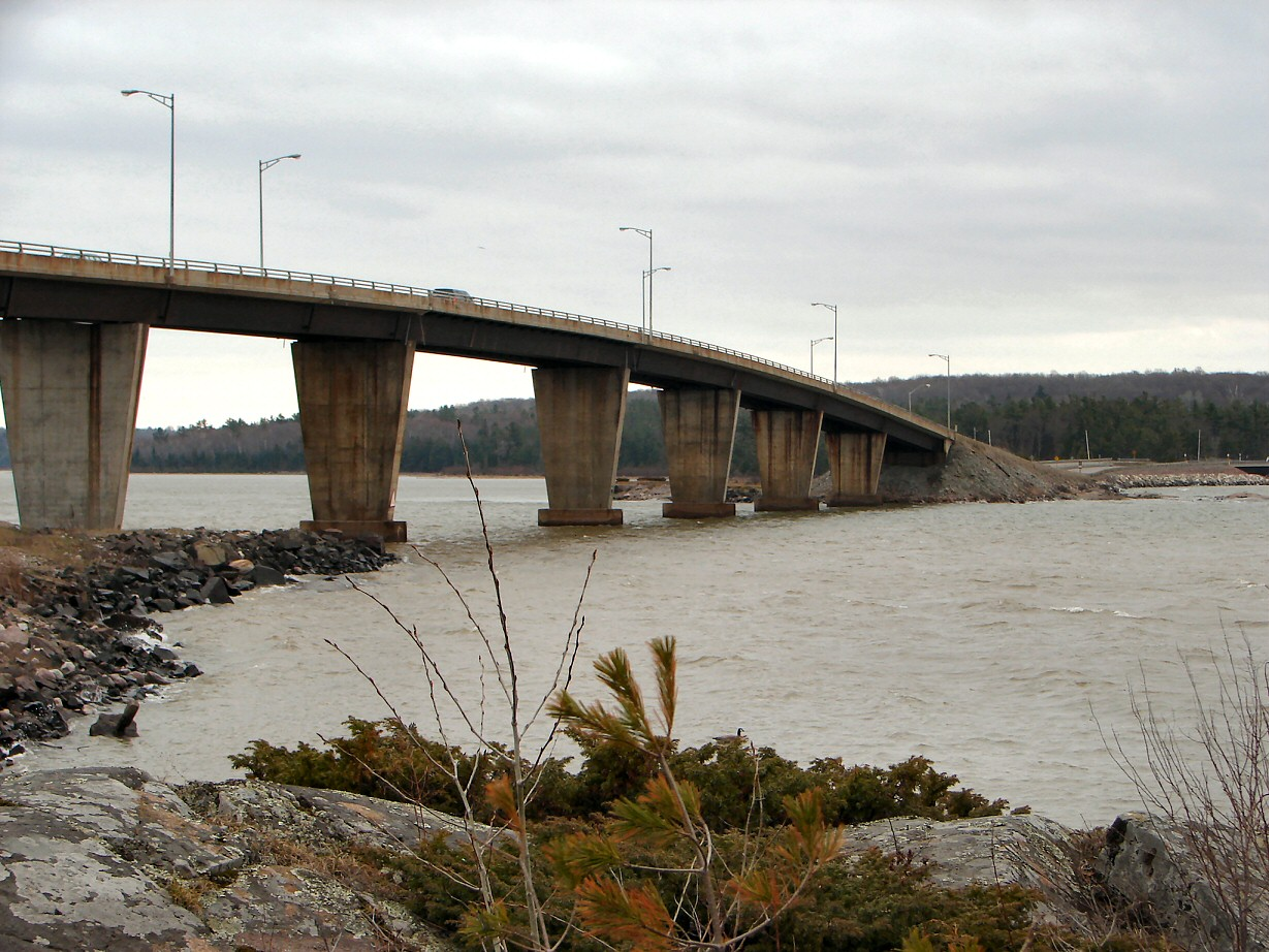 Bridge to St. Joseph Island (seen in background), Ontario, Canada